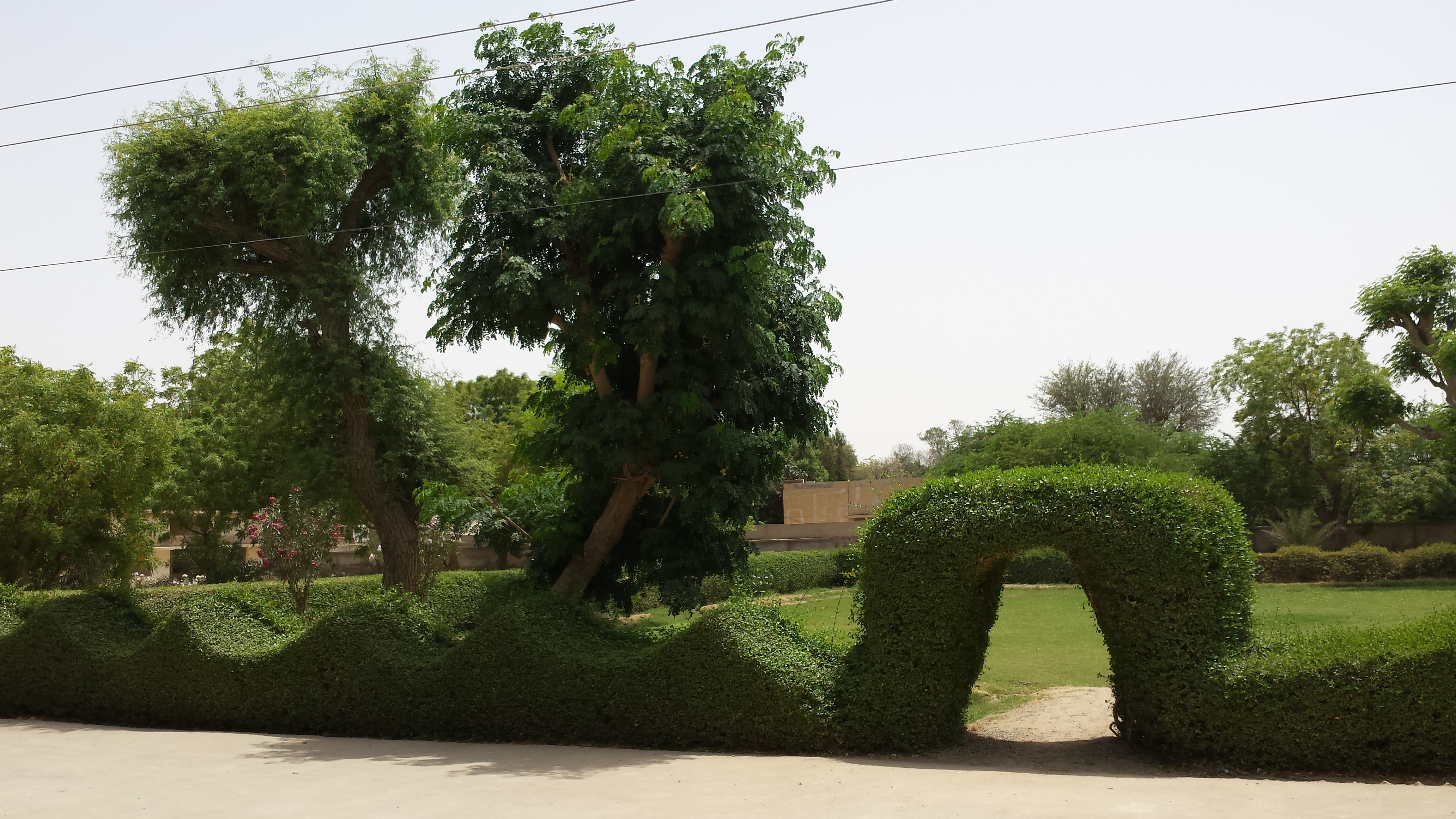 Irrigation Office Uthal